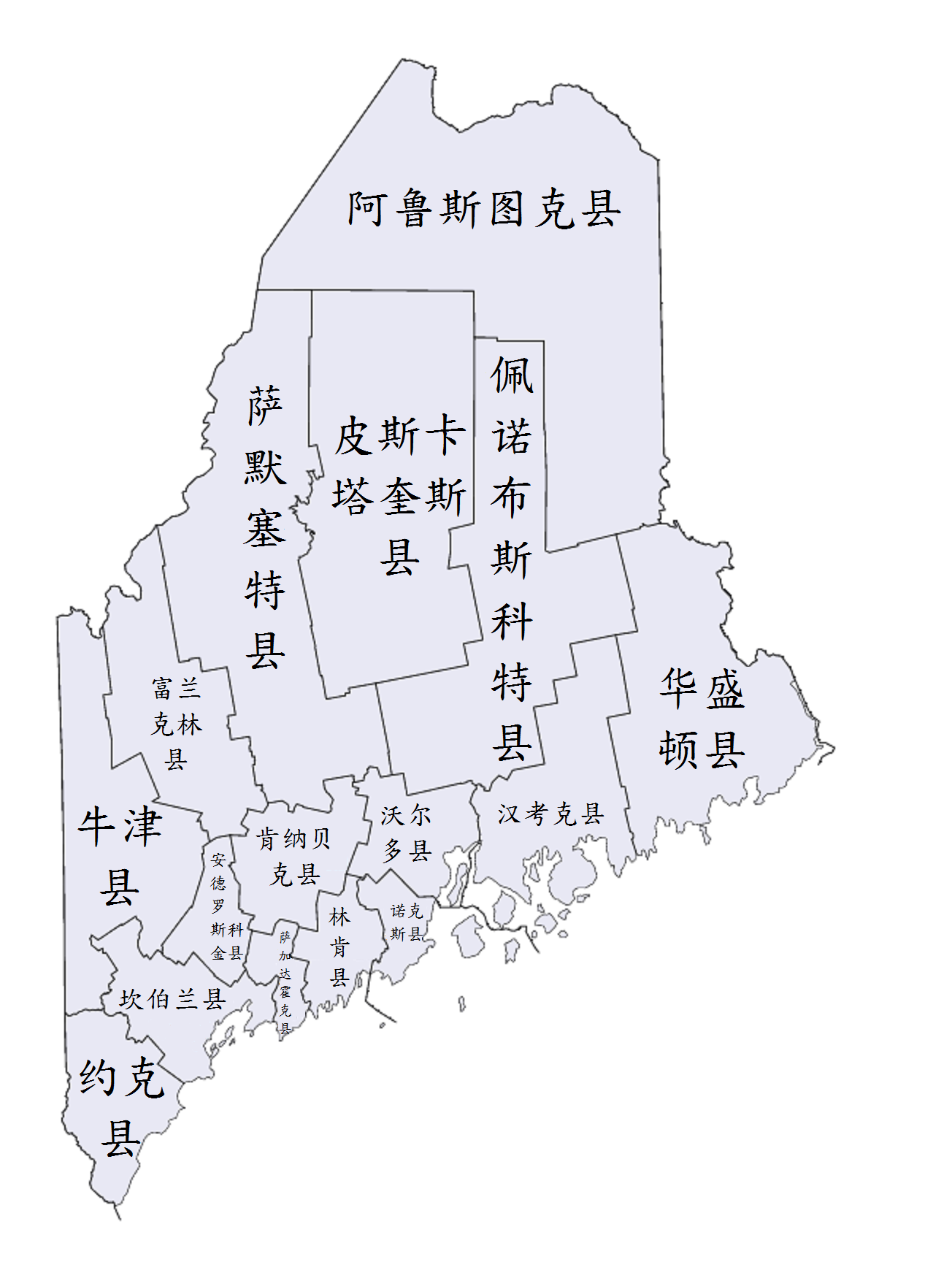 retouched picture of File:Maine-counties-map.gif with Chinese labels in simplified script